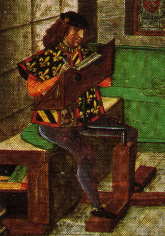 Chronicler and officer of arms Jean Le Fevre wearing a tabard as Toison d'Or King of Arms around the year 1450.